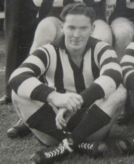 Photograph of Harry Mears from 1944-1945